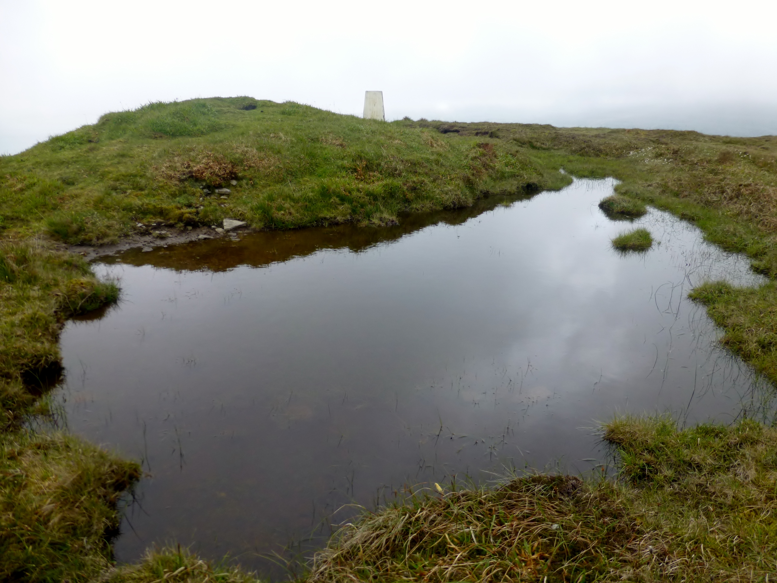 Kierfea Hill